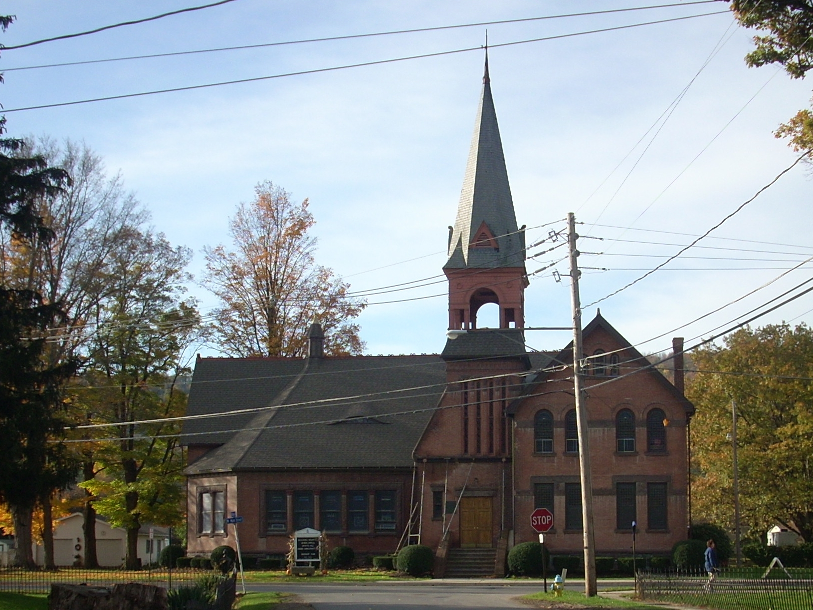 This is Parkhurst Presbyterian Church on Main Street in Elkland, Tioga County, Pennsylvania, USA. It was listed on the NAtional Register of Historic Places in 2012.